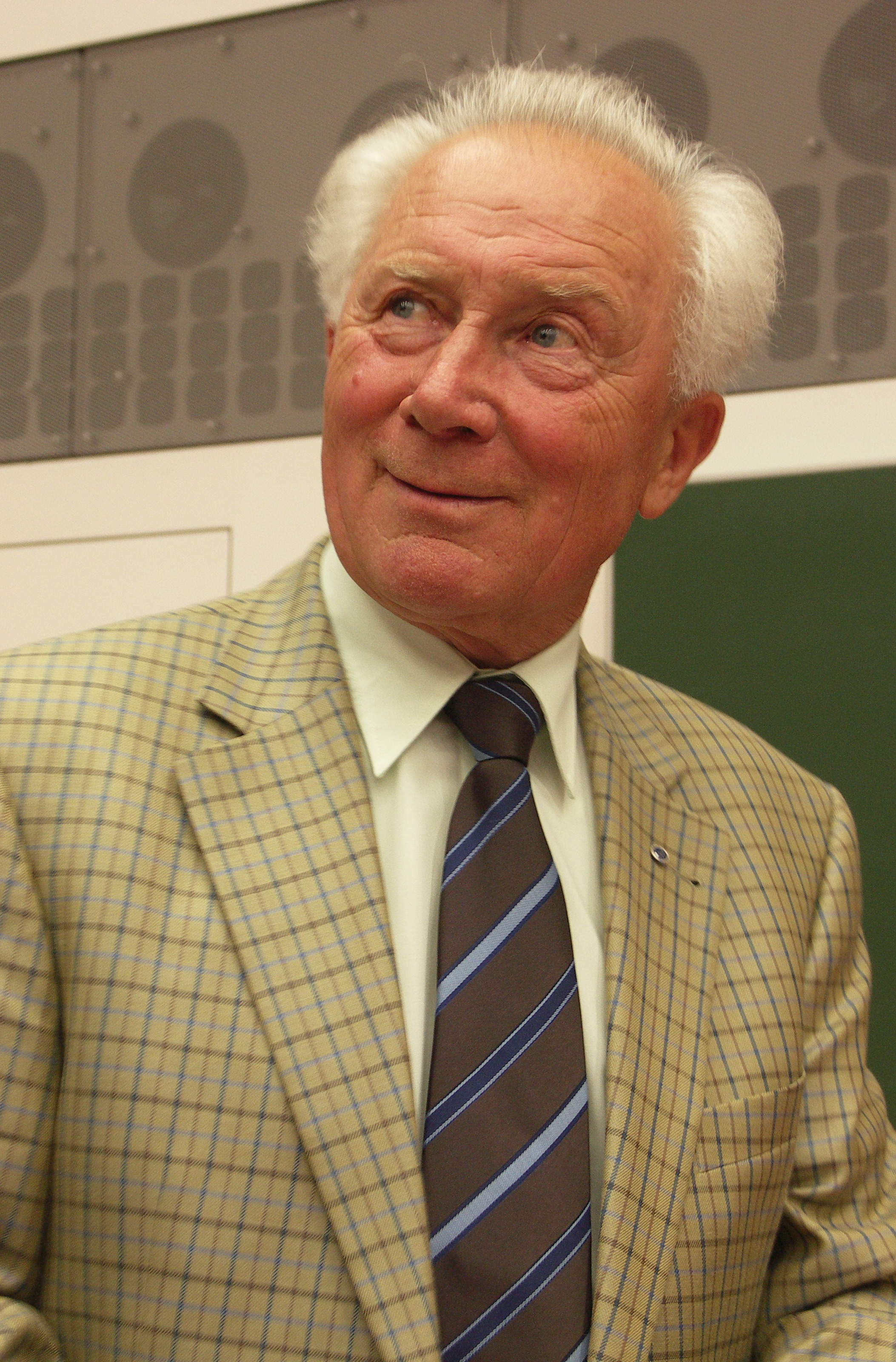 Dr. Sigmund Jähn, first German to fly in space, after a lecture dealing with German contributions to space travelling in the Technical University of Berlin